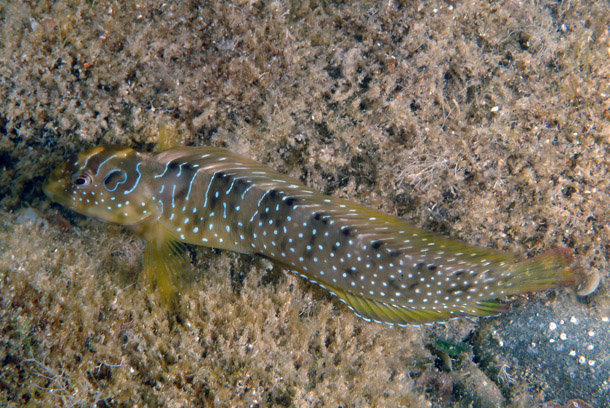 Salaria pavo photographed near Tuscany coasts (Italy). Photo by Stefano Guerrieri.